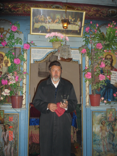 Taken within church in Baley/Bregovo Municipality/Bulgaria The priest in the church Anatoliy